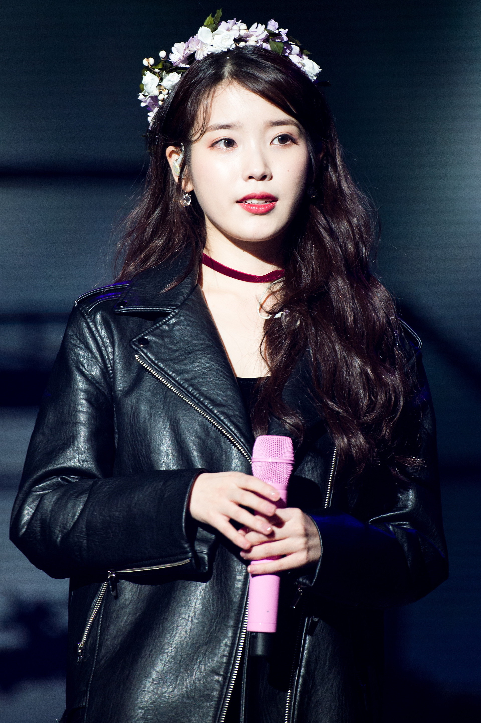 IU at a concert in Cheongju, South Korea, on 3 December 2017